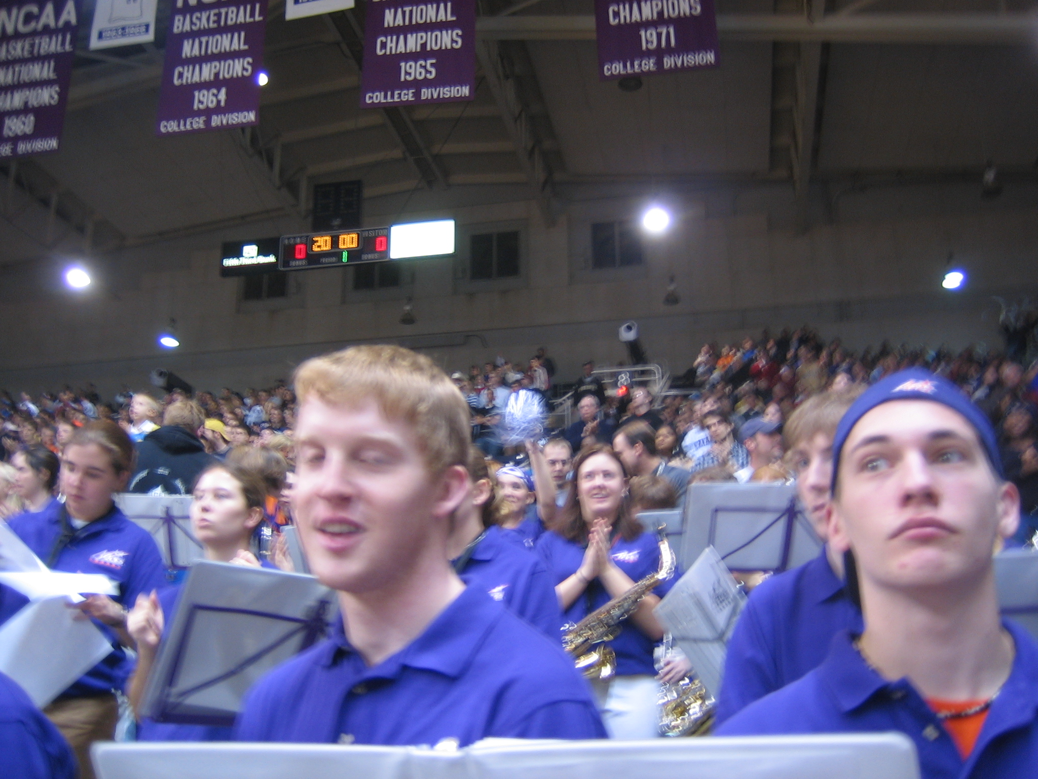 Aces Brass